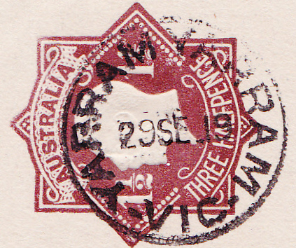 A 1919 postmark of Yarram Yarram, Victoria, Australia